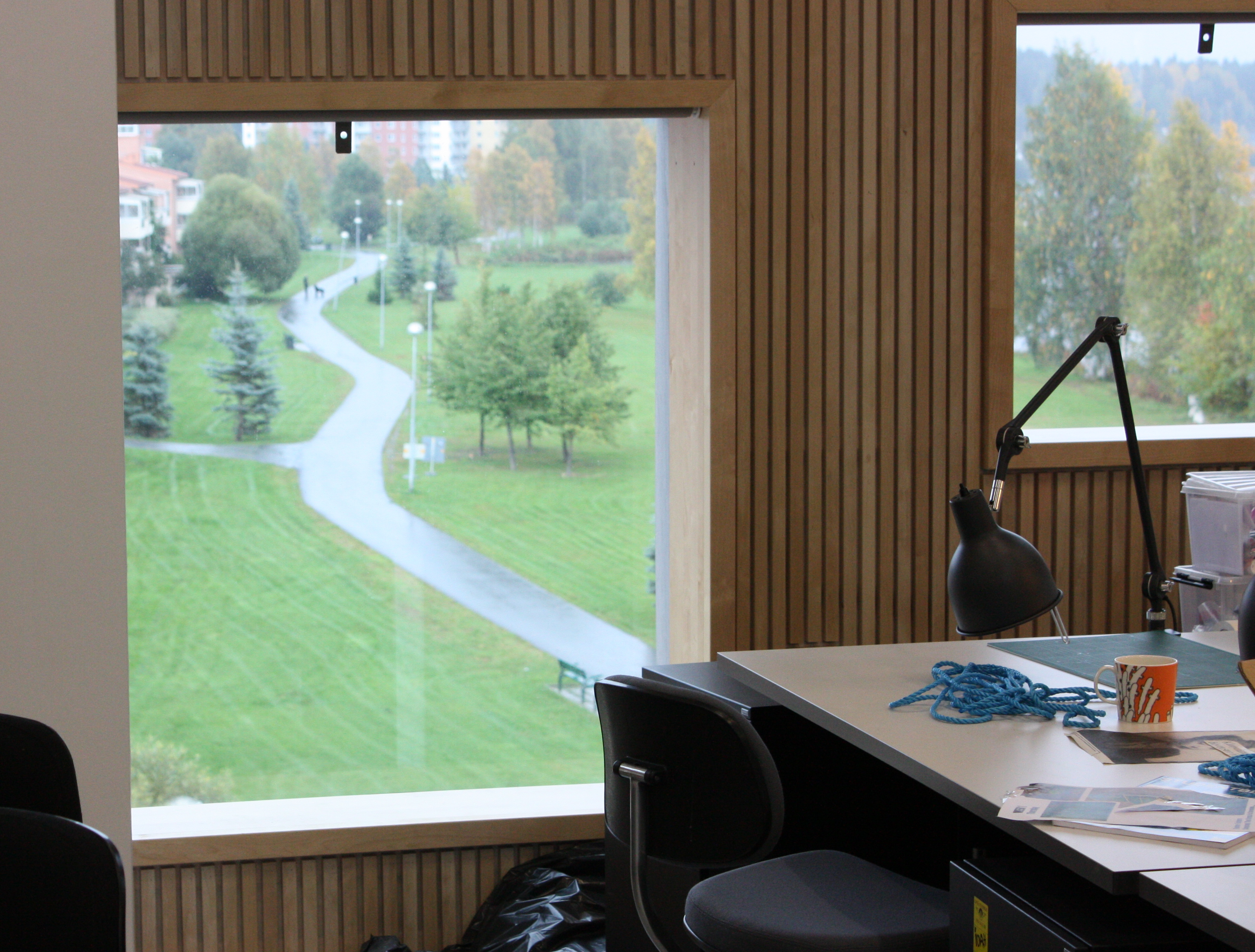 Study desk at Umeå School of Architecture, view to the east towards Öbackaparken (Öbacka Park).